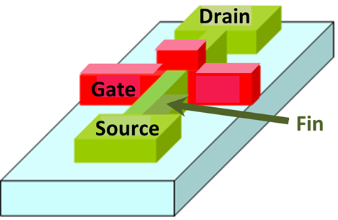 I am the author of this image.